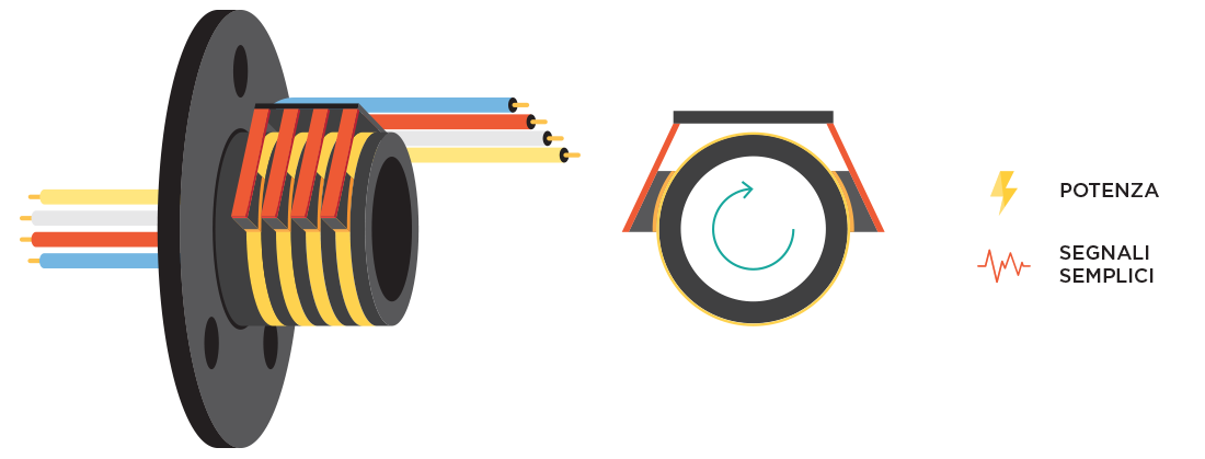 Slip Ring with conductive block technology